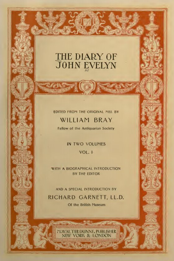 Portada del Diario de John Evelyn // The diary of John Evelyn